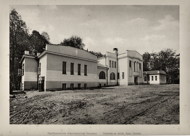 Moscow Dollhouse